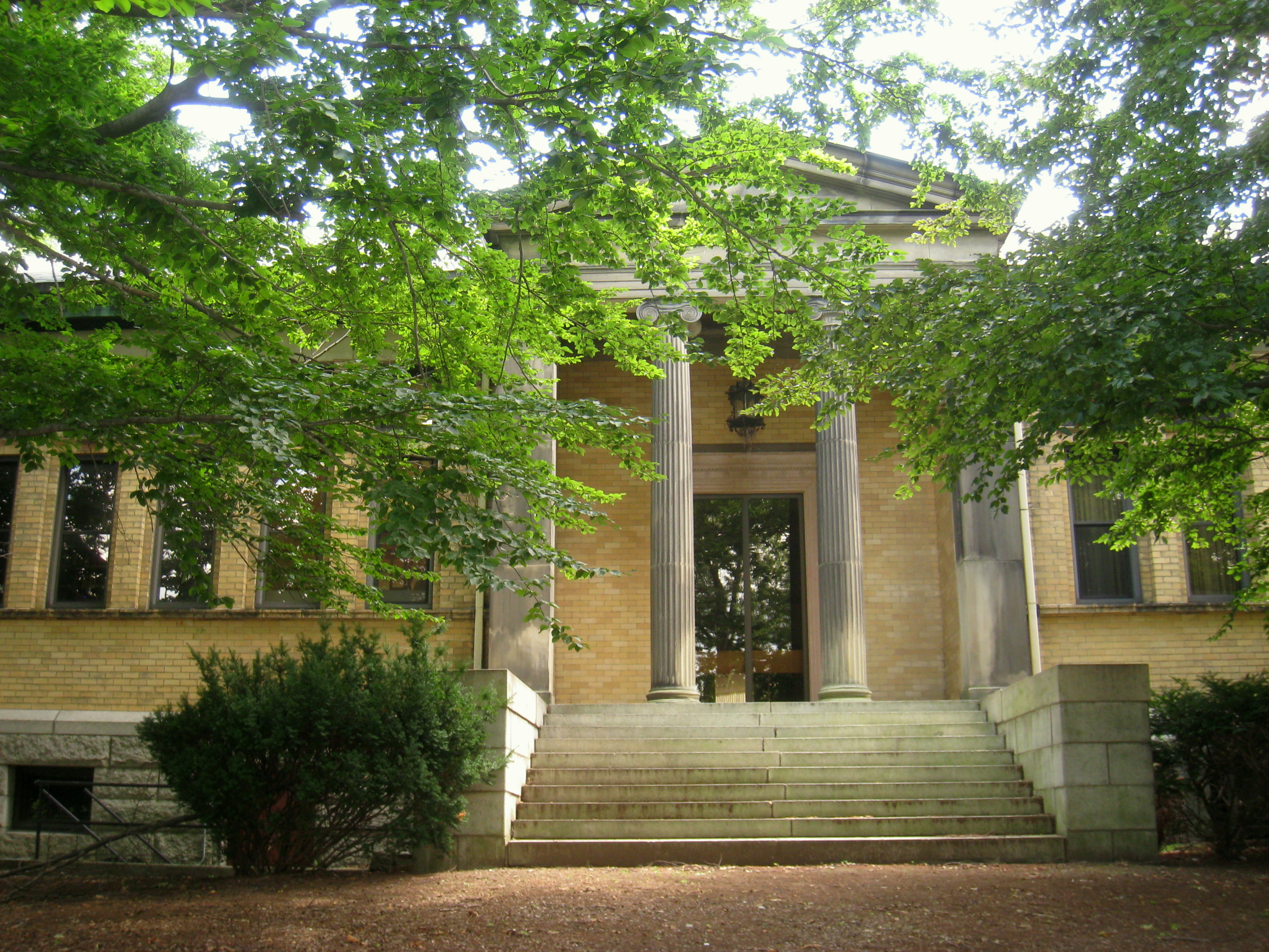 Franklin Trask Library, Andover Newton Theological School, 210 Herrick Road, Newton Centre, Massachusetts, USA.